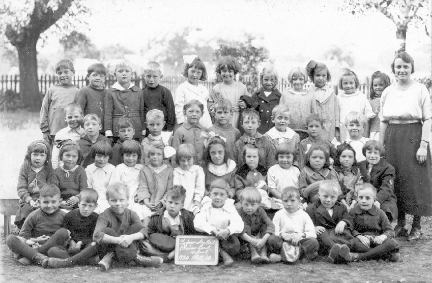 A photograph of pupils at Plains Road School on Plains Road in East York, Ontario. John Diefenbaker, who later became Canada's Prime Minister, is seated fifth from the left in the front row (he attended the school between 1900 and 1903). Before the family moved to western Canada, Diefenbaker's father was school principal and his brother Elmer was also a student at the school. The school, since rebuilt on the same site, is now called Diefenbaker Elementary School.